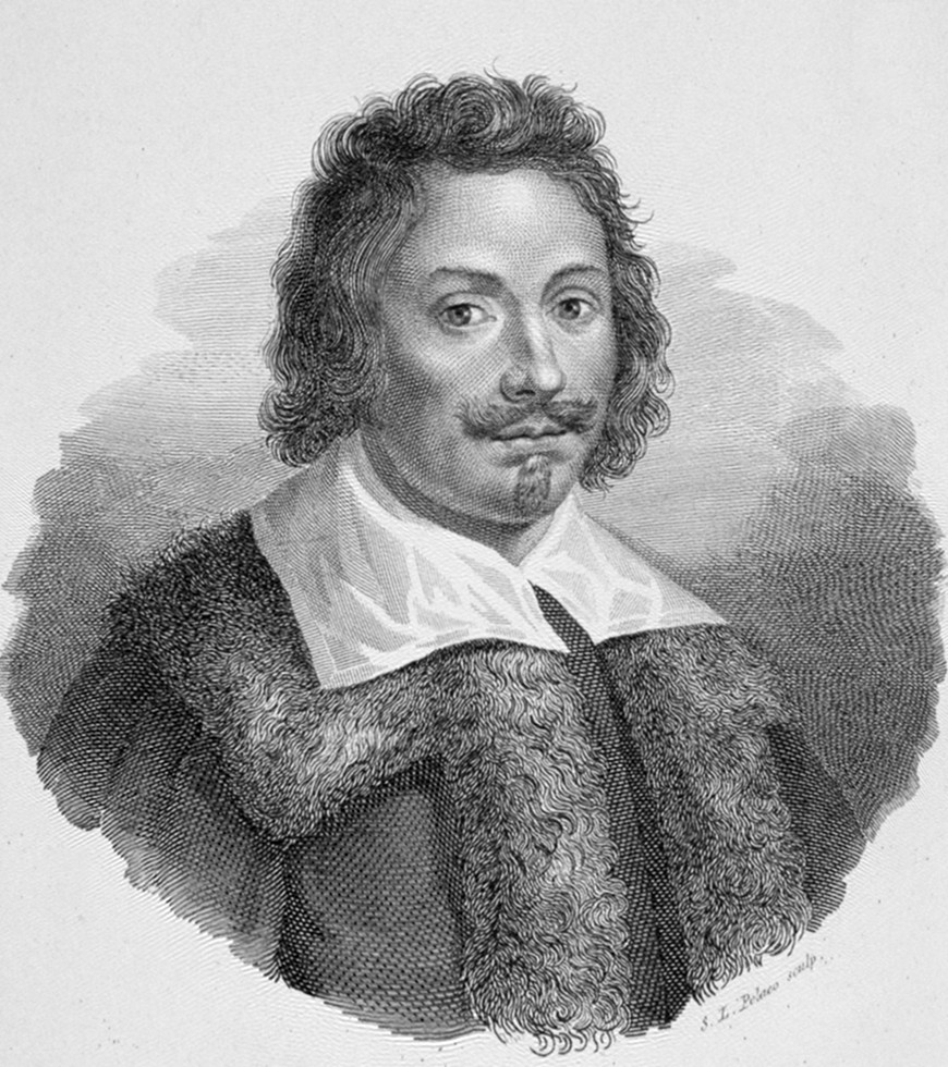 Evangelista Torricelli (1608-1647)